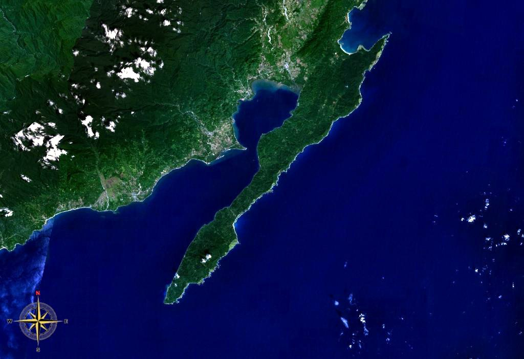 San Ildefonso Peninsula in the Philippines. Satellite view.